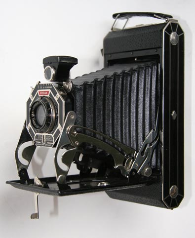 Kodak Six 16 - folding camera